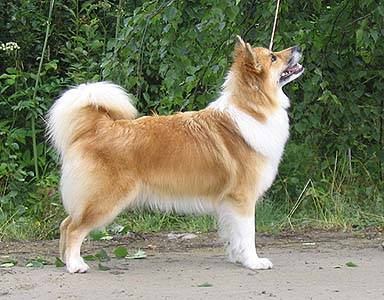 Iceland Sheepdog